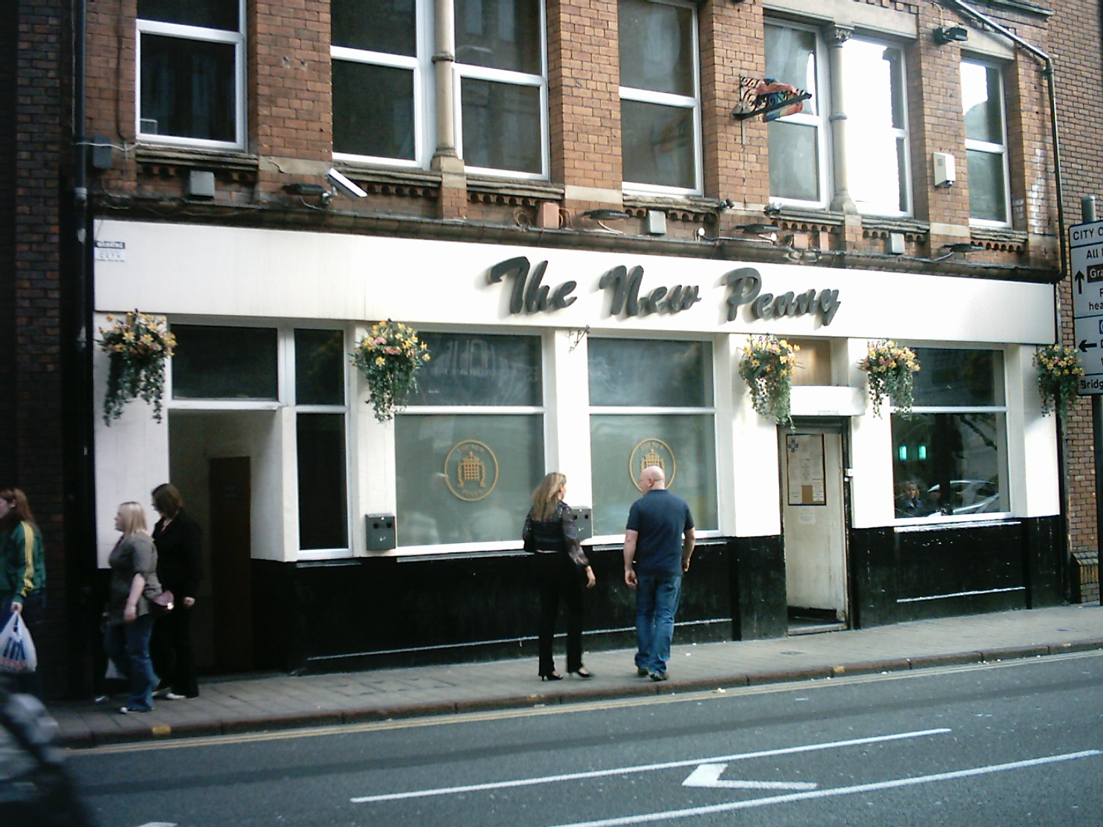 The New Penny public house on Call Lane in Leeds, West Yorkshire, UK. It is said to be Leeds' first 'gay pub'. Taken on the evening of the 2nd May 2009.